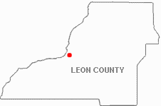 Location of Ochlockonee. Volapük: Topam in komot: Leon.